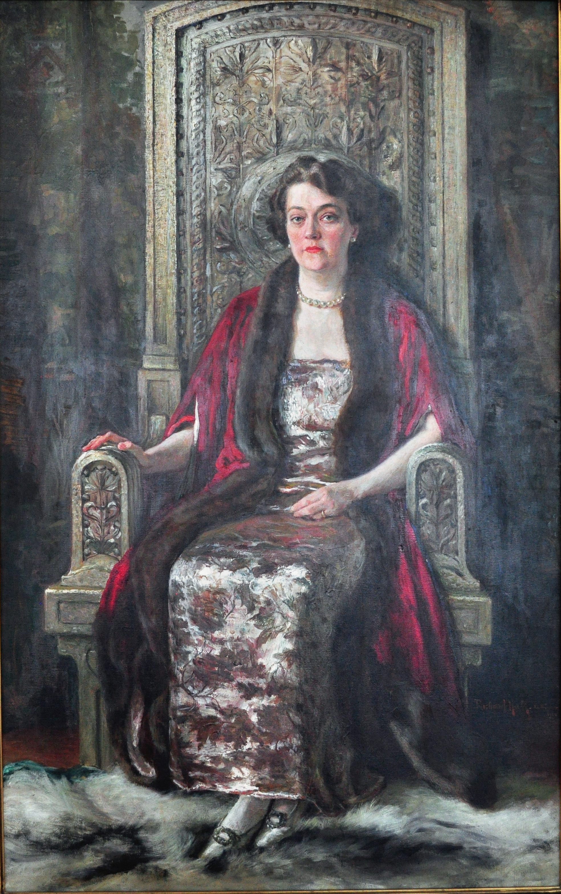 "Alma de Bretteville Spreckels in Queen Marie of Roumania's audience chair" (1924) painted by Richard Hall (see Richard Hall, Maryhill Museum of Art, Maryhill, Washington.